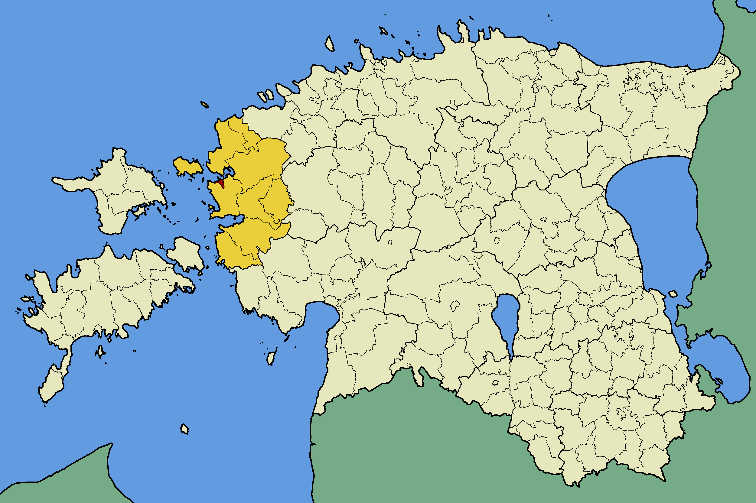 Map of Estonia with borders of municipalities (parishes). Lääne county and Haapsalu town municipality emphasized.